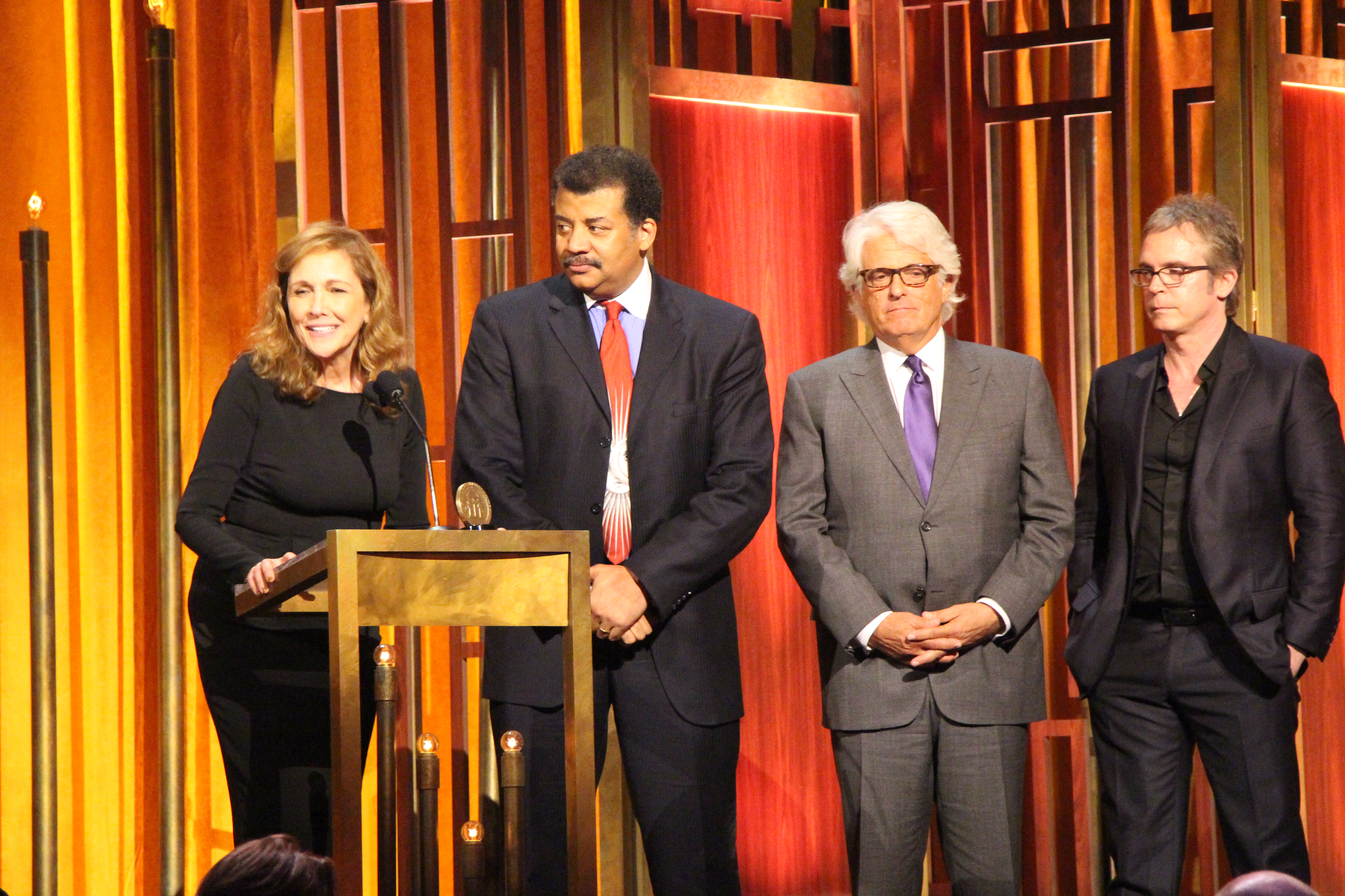 Ann Druyan, Executive Producer and Writer of Cosmos: A SpaceTime Odyssey, accepts the Peabody with Neil deGrasse Tyson, Mitchell Cannold and Brannon Braga.